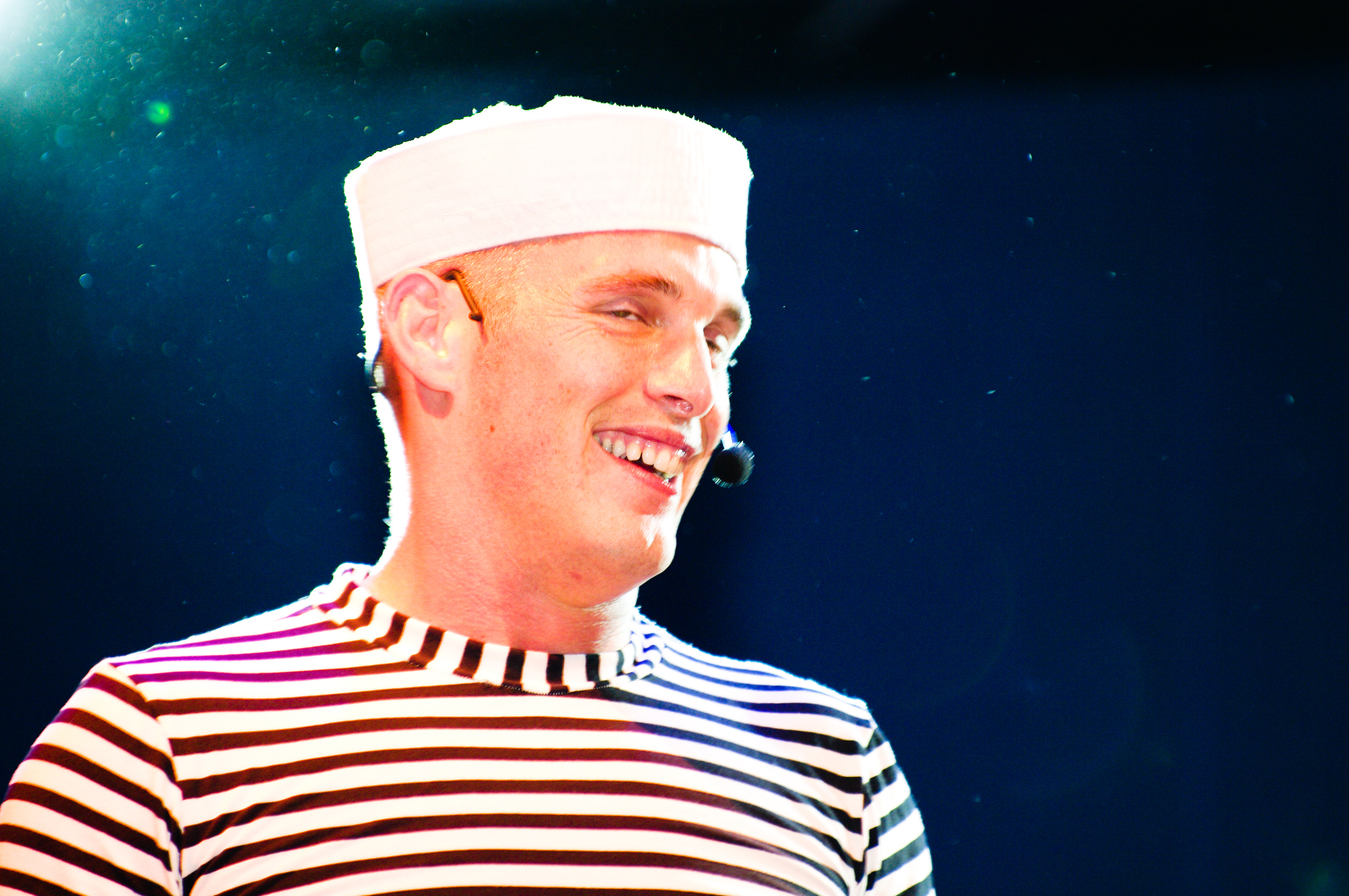 NDR Welle Nord Sommertour Quickborn: Yorrick bakker of the Vengaboys.